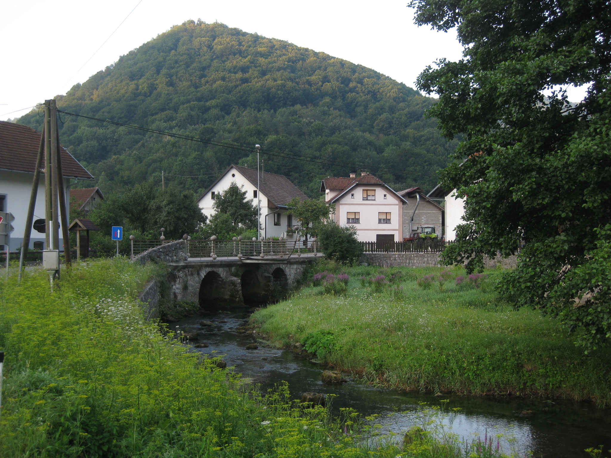 Dol, village near Kolpa river, Slovenia